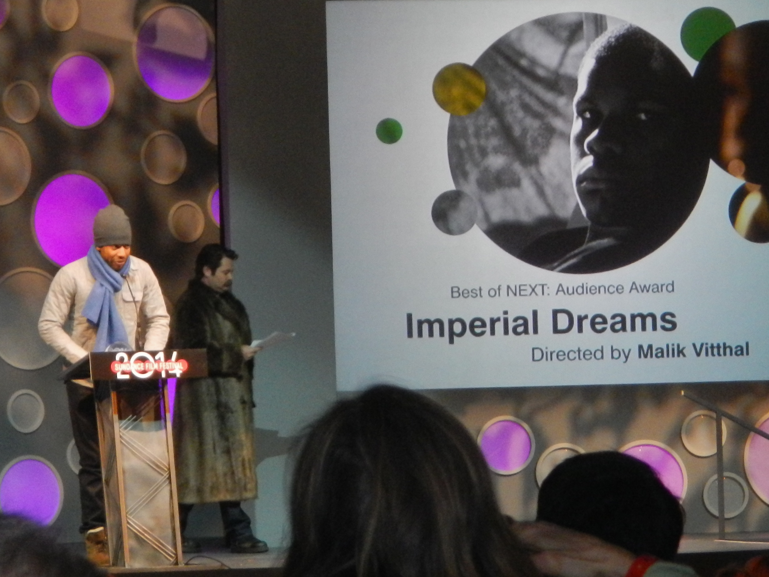 Malik Vitthal at the Sundance 2014 Awards Ceremony